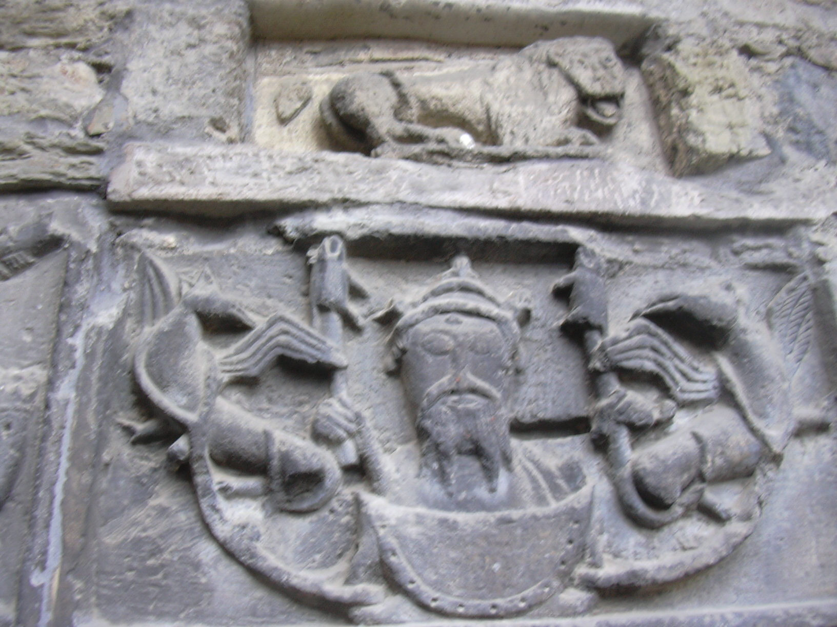 St. Peter and Paul, Remagen: Romanesque parish gate, detail: Alexander the Great, flying on griffins into the sky